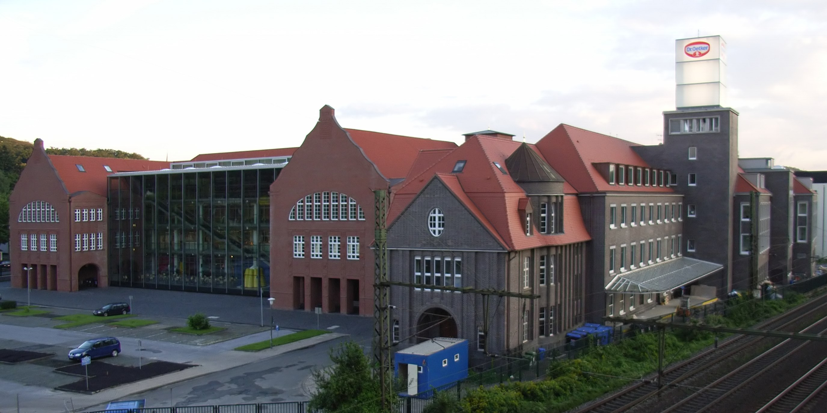 Bielefeld, Germany: Domicile of the Dr. August Oetker Nahrungsmittel KG.